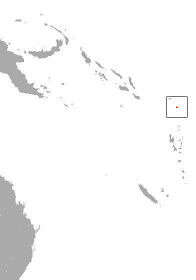 Vanikoro Flying Fox (Pteropus tuberculatus) range